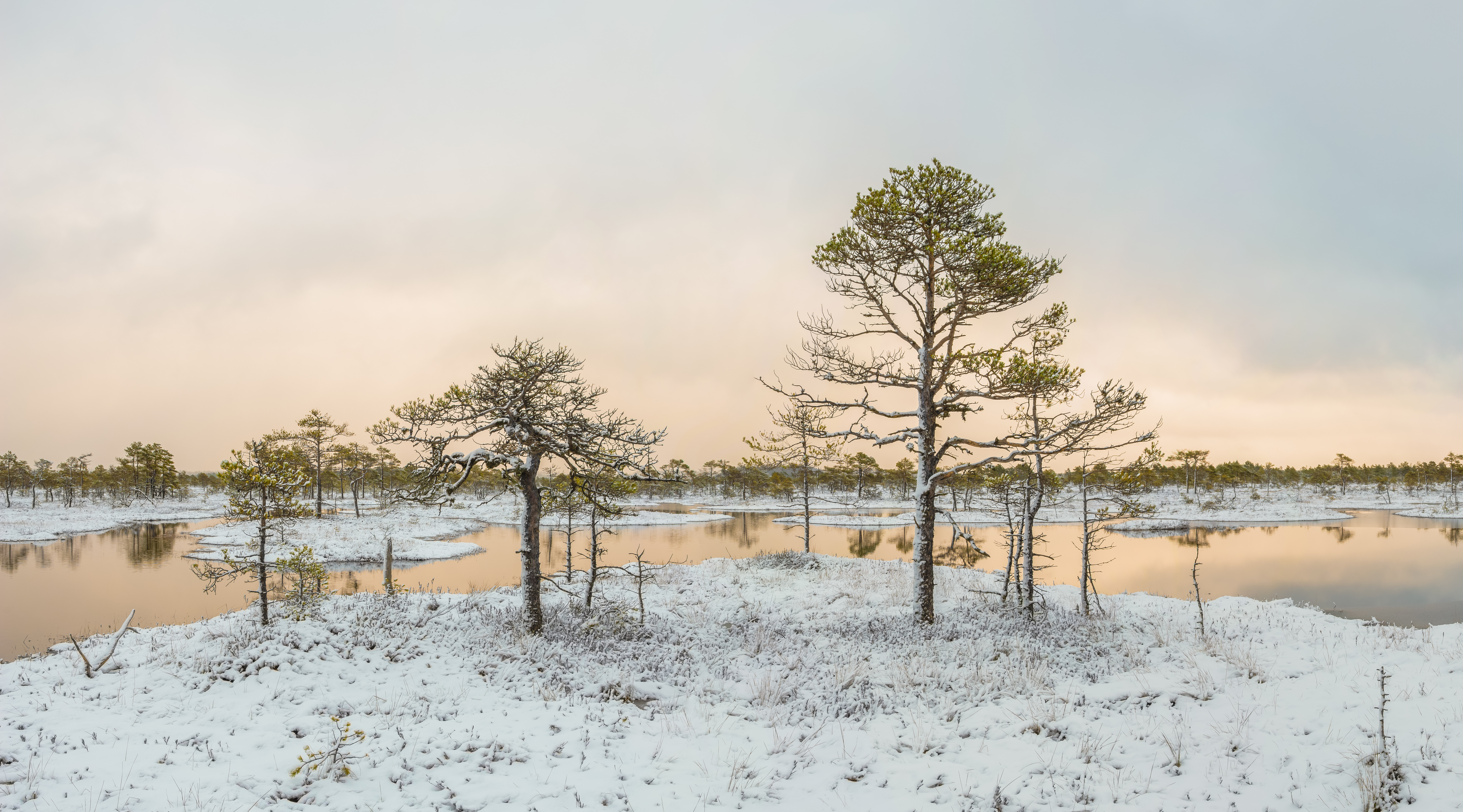 Bog landscape at winter, Kakerdaja Bog, Järvamaa, Estonia.